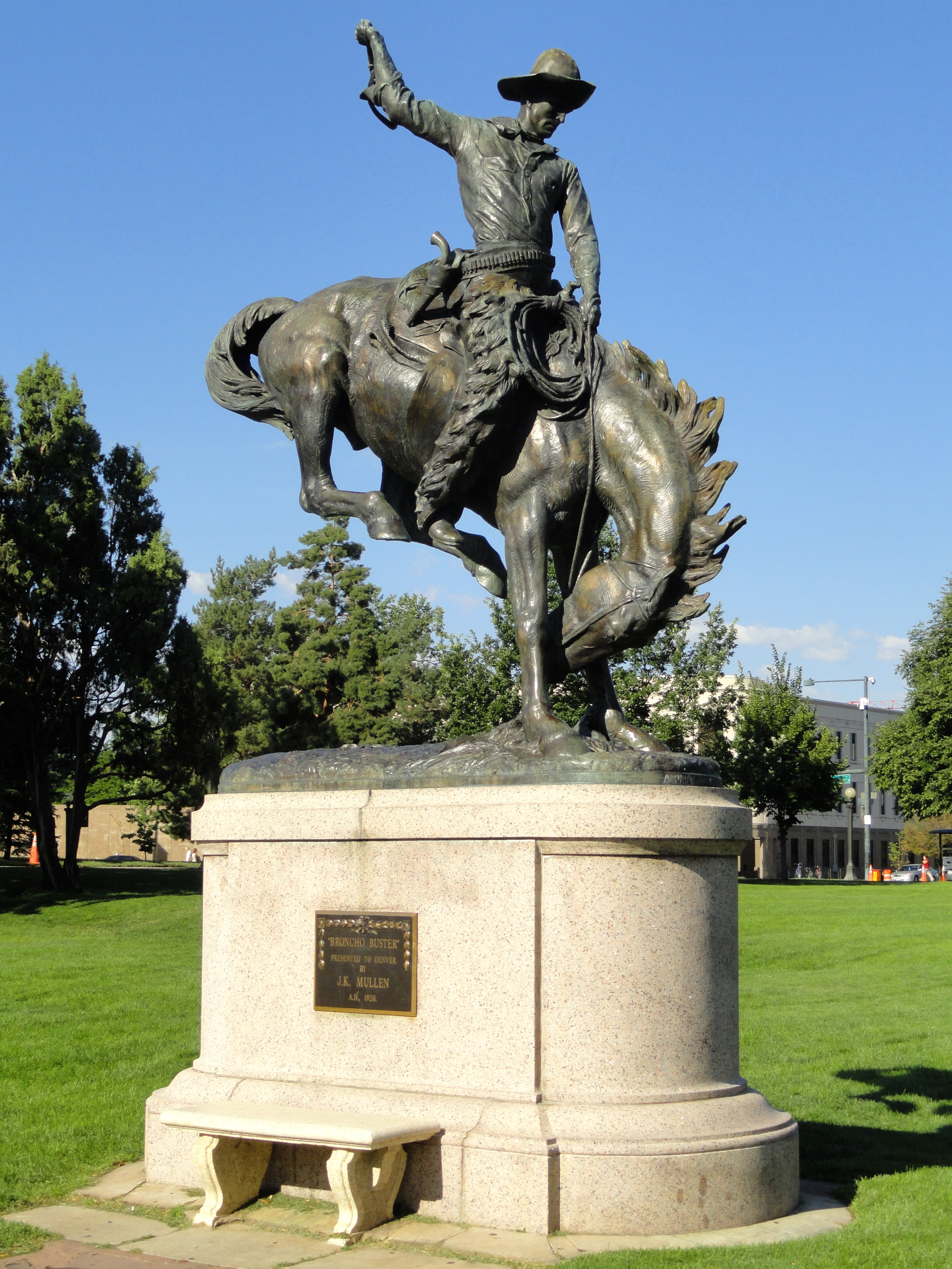 Bronco Buster by Alexander Phimister Proctor, Civic Center Park, Denver, Colorado, USA. This statue was created in 1922 and hence is now in the public domain.